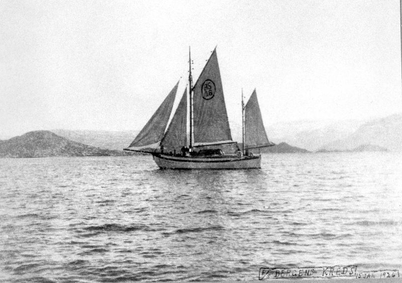 Norwegian rescue boat RS 26 Bergen Kreds